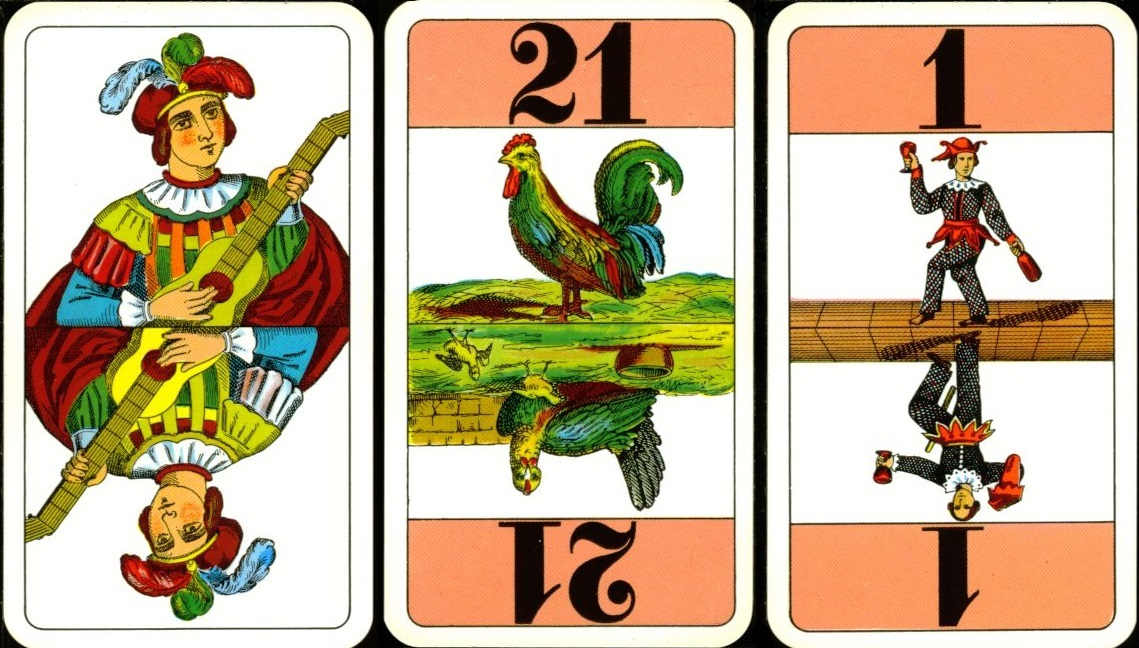 Trumps 1, 21, and the Gstieß from an Adler-Cego deck. This standard pattern was created in the early 19th century and is the last surviving animal tarot still in use. It is currently employed for Cego in Baden, Germany. ASS Altenburger, a Cartamundi subsidiary, is the last manufacturer of this pattern.